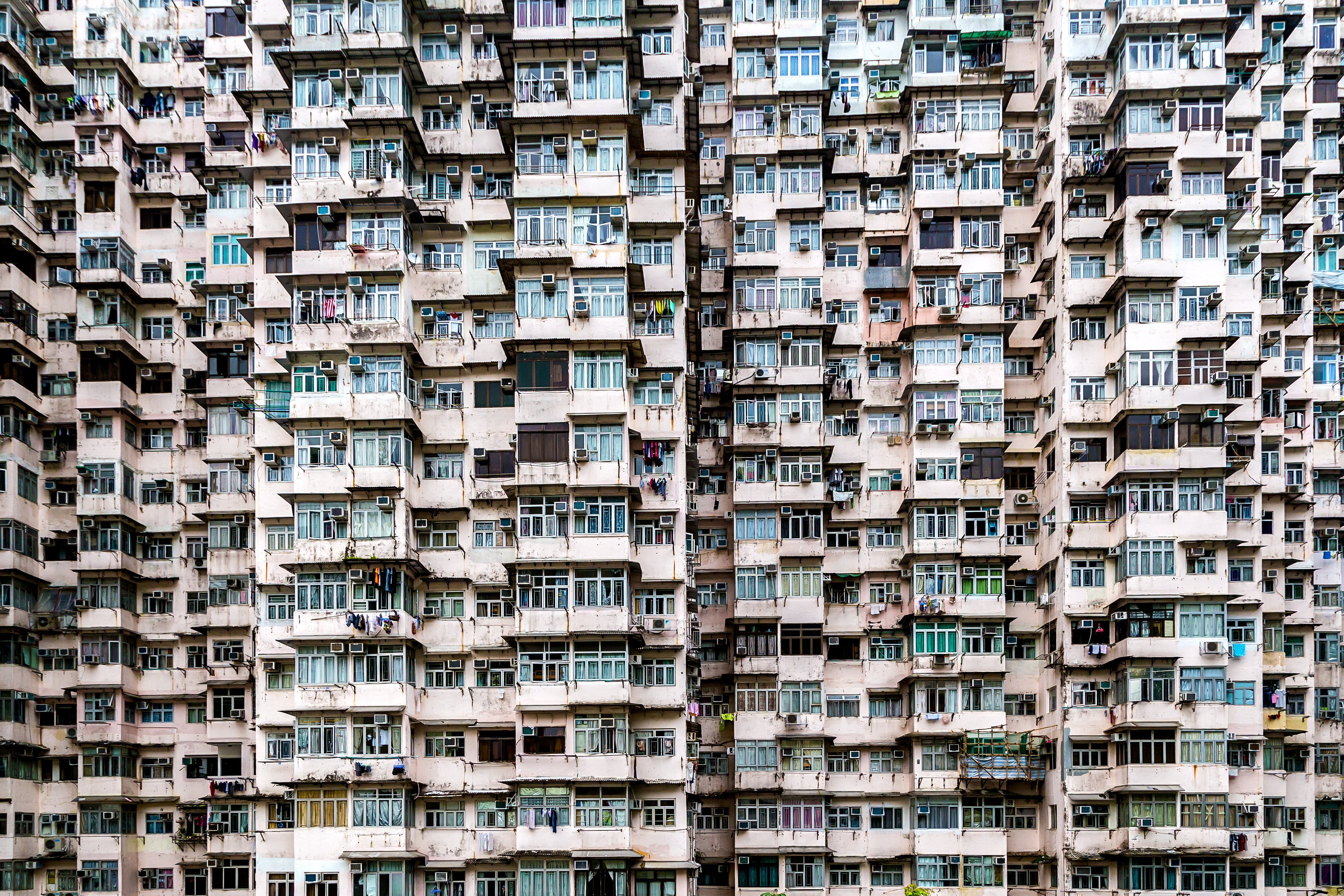 Brian Sugden 2017